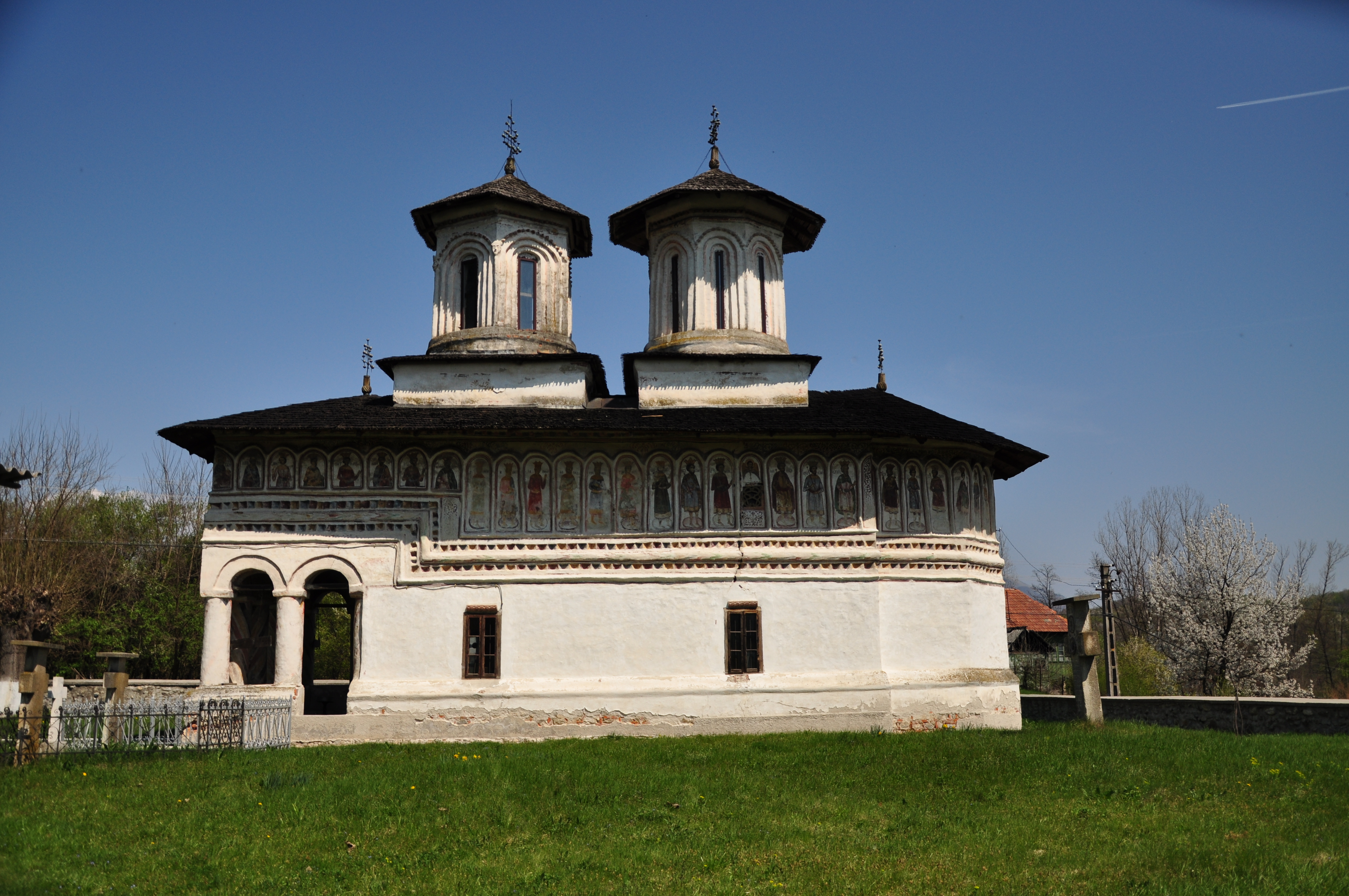 Saint Nicholas and Archangels church in MăldărestiRomână: 1774-1790 03